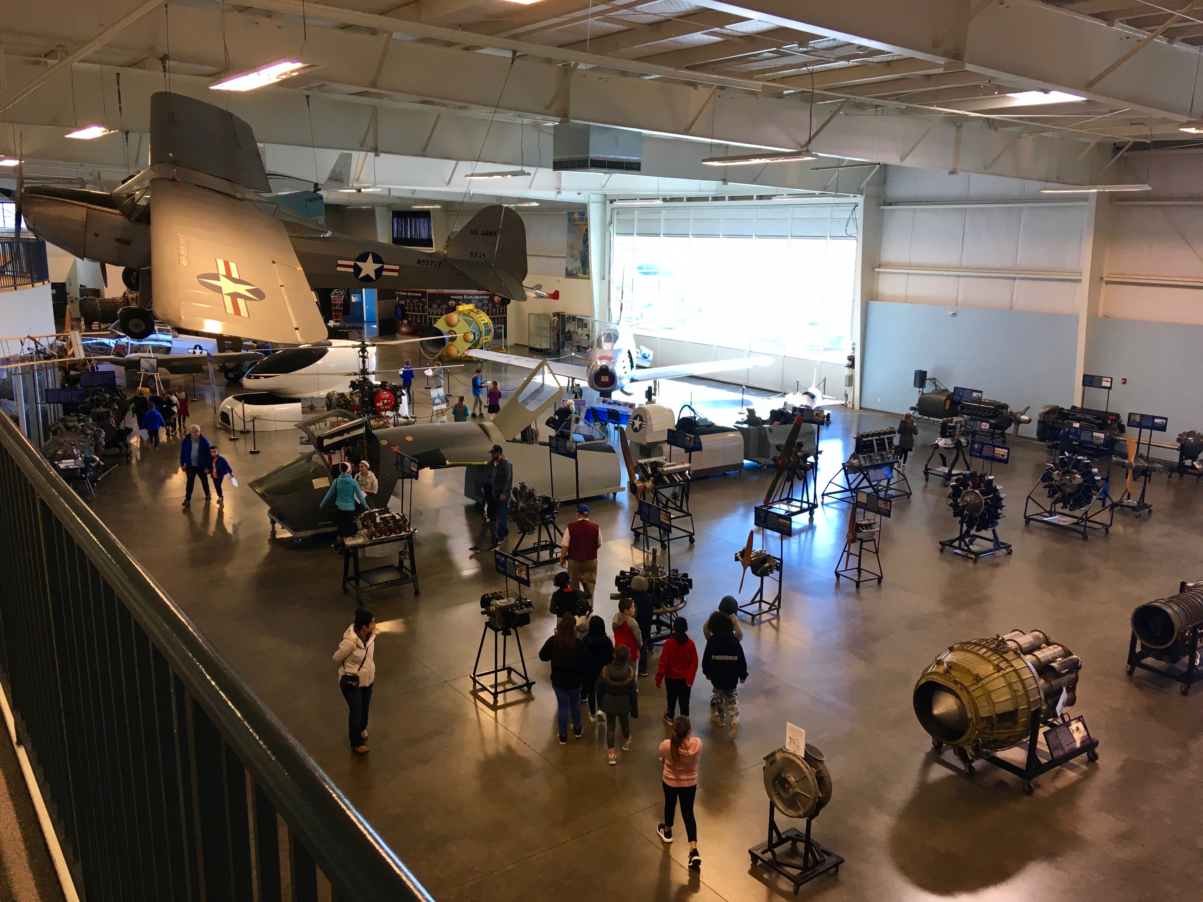 Visitors inside the Exhibit Hall at the Aerospace Museum of California viewing the museum's engine exhibit. The museum has 30 engines in its collection, dating from the early 1900s to modern jet engines such as the J58 from the SR-71 Blackbird.